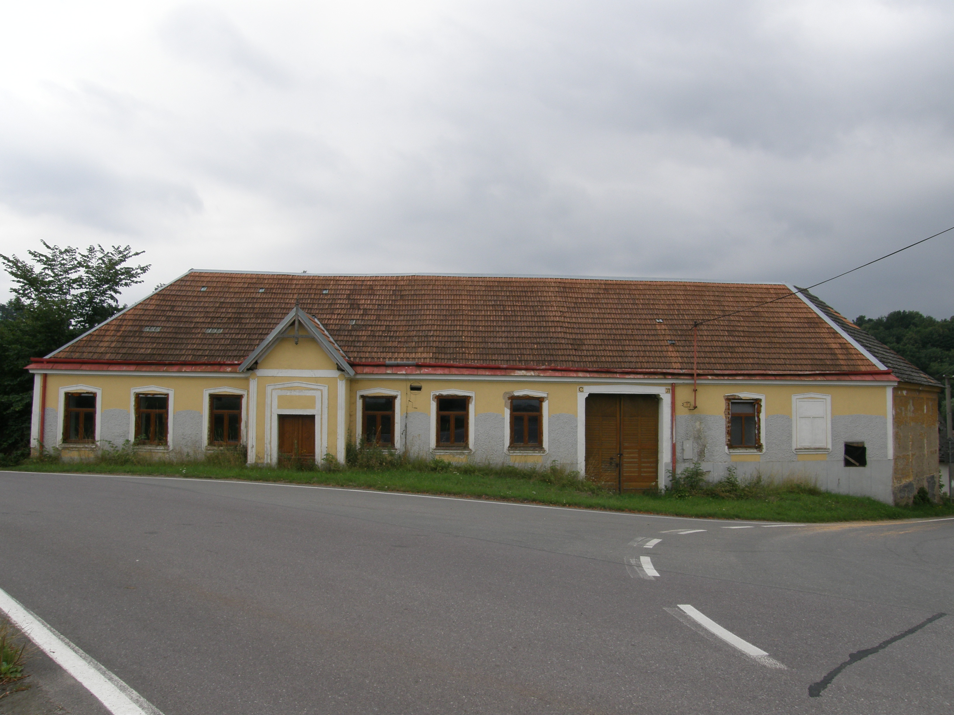 Budeč in Jindřichův Hradec District, Czech Republic.